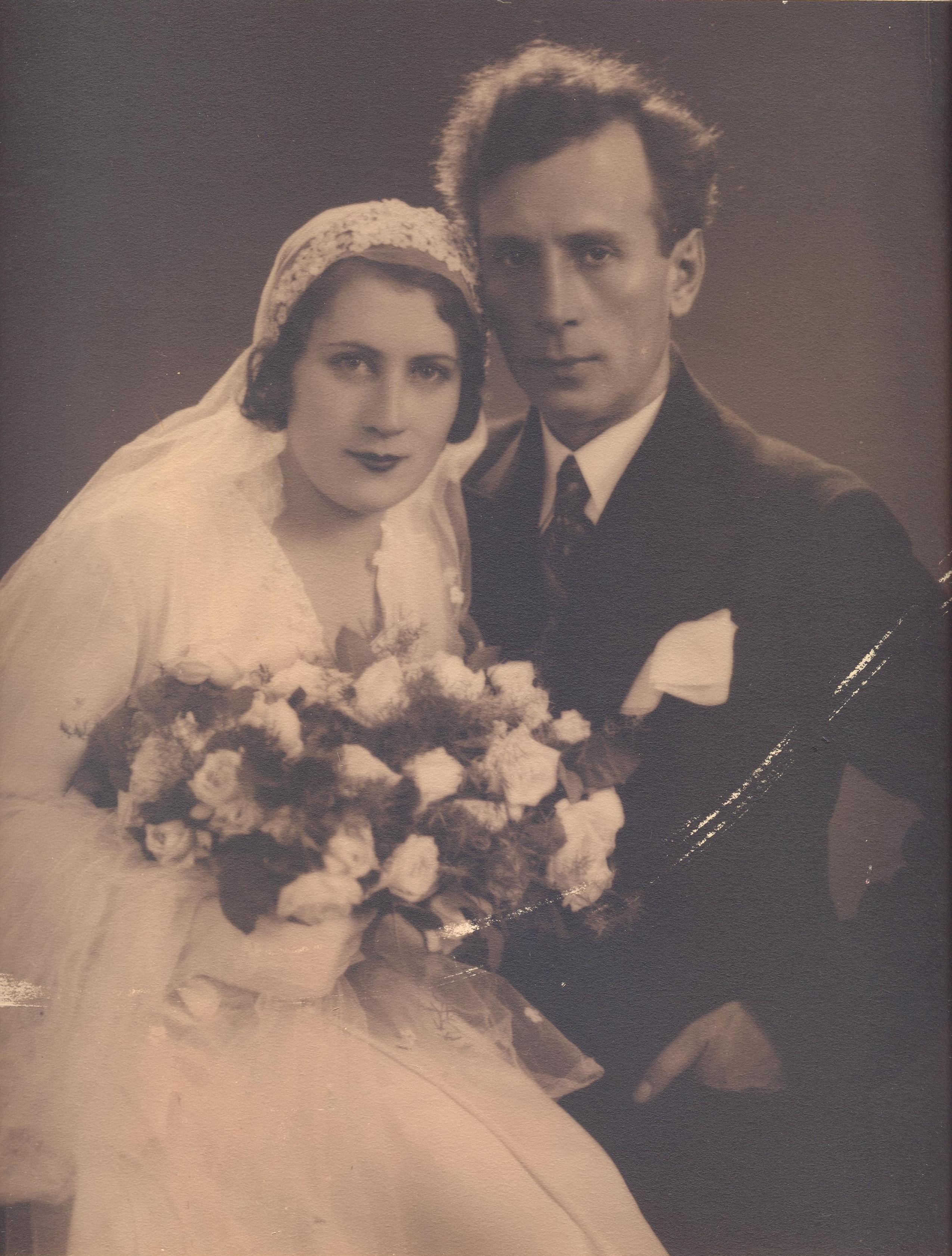 Bulgarian painter and caricaturist Rayko Aleksiev with bulgarian actor Vesela Grancharova, 1932.